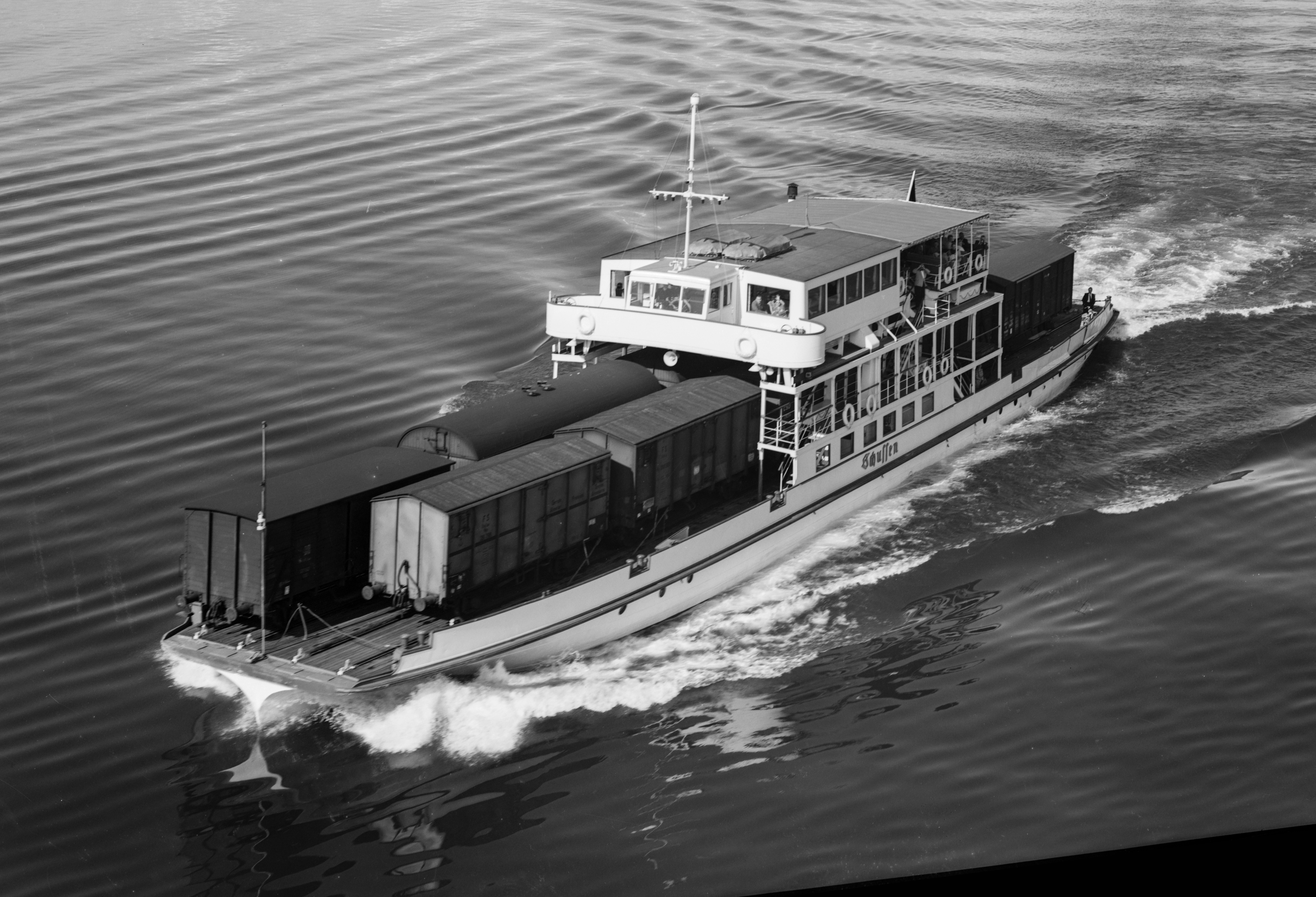 Train ferry "Schussen" on August 17th 1954 on Lake Constance. Visible on deck are some covered goods wagons of the Italian state railways (FS).